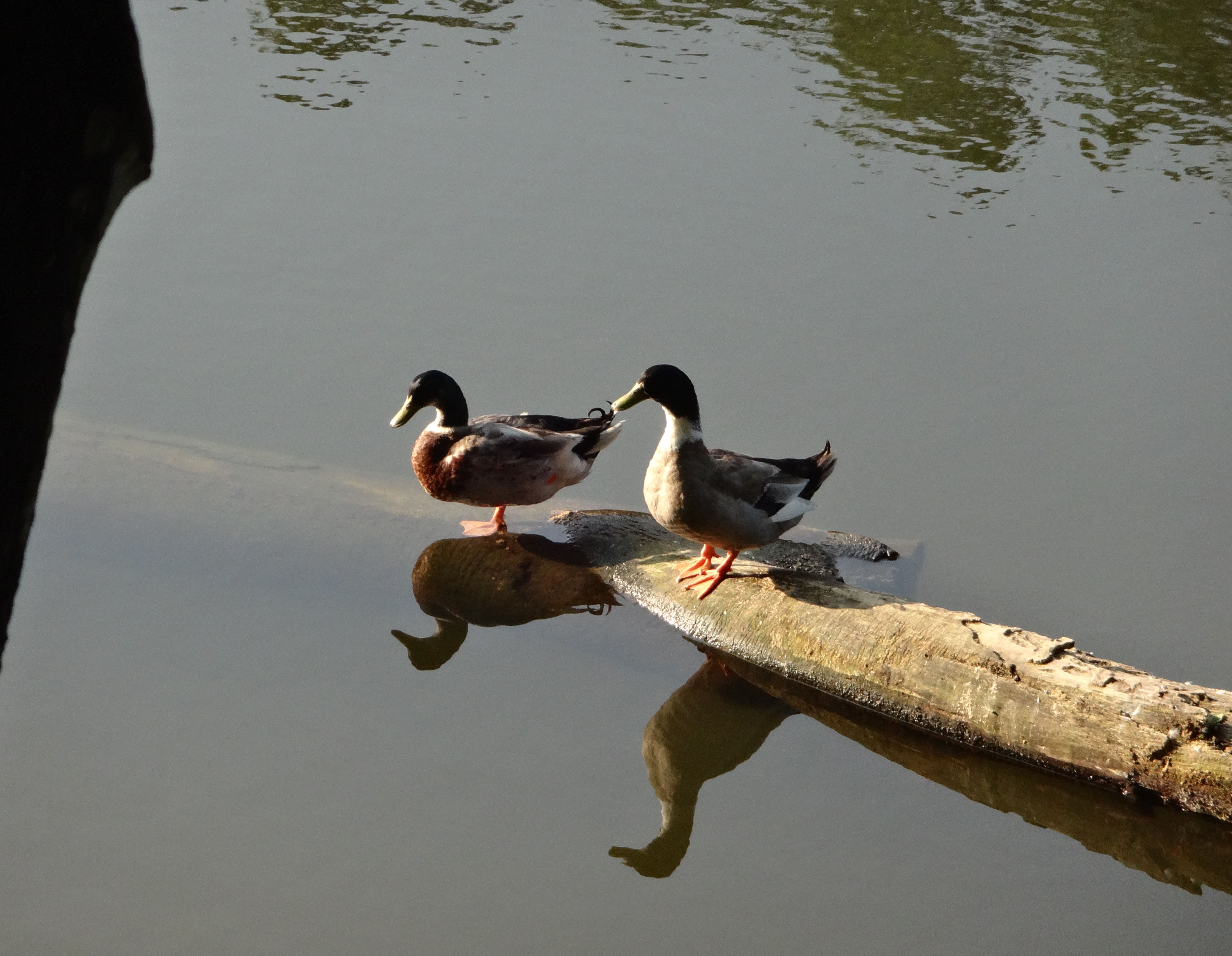 Ducks in the ponds, Khulna, Bangladesh